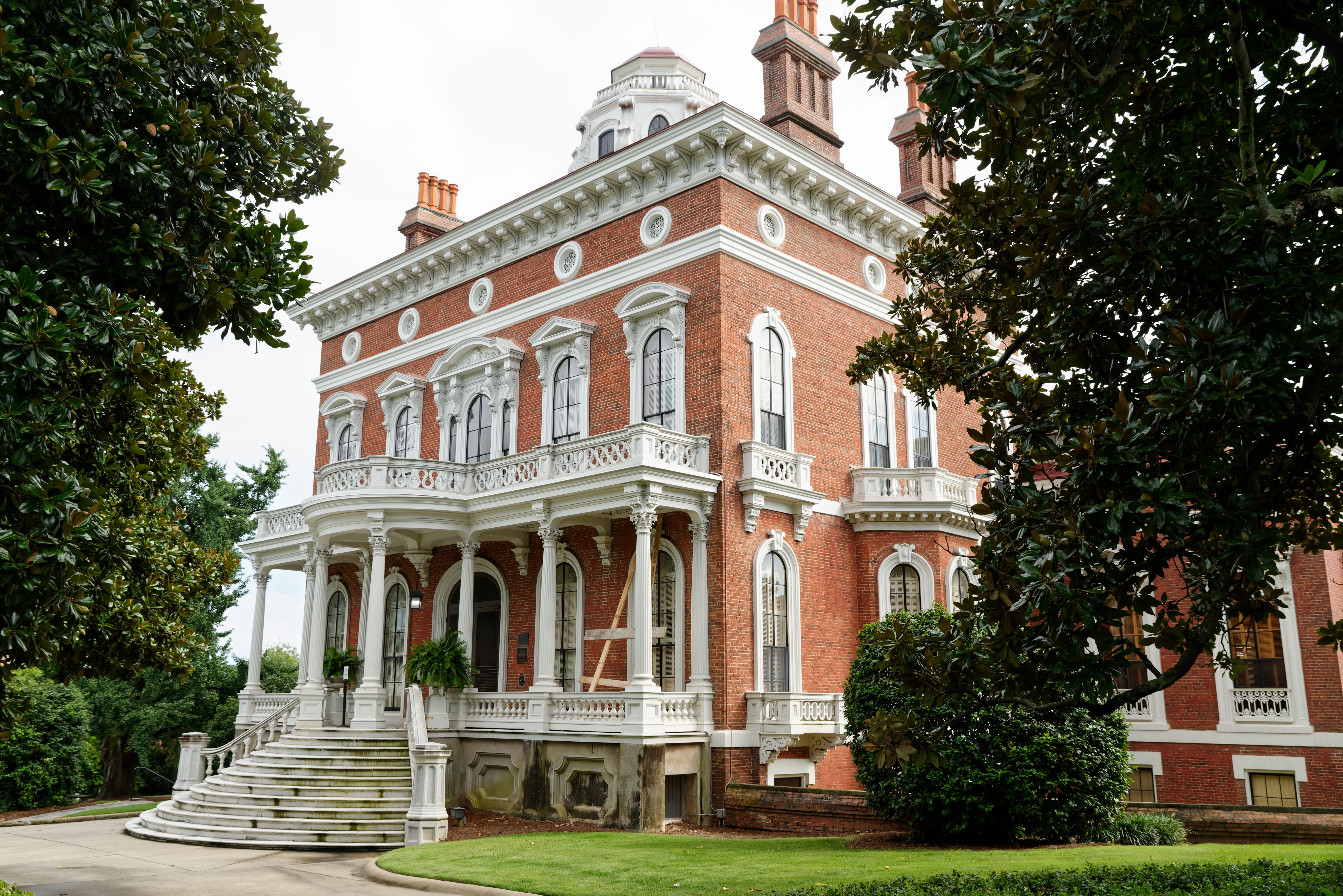 Johnston-Felton-Hay House, Macon, Georgia, US. A National Landmark.